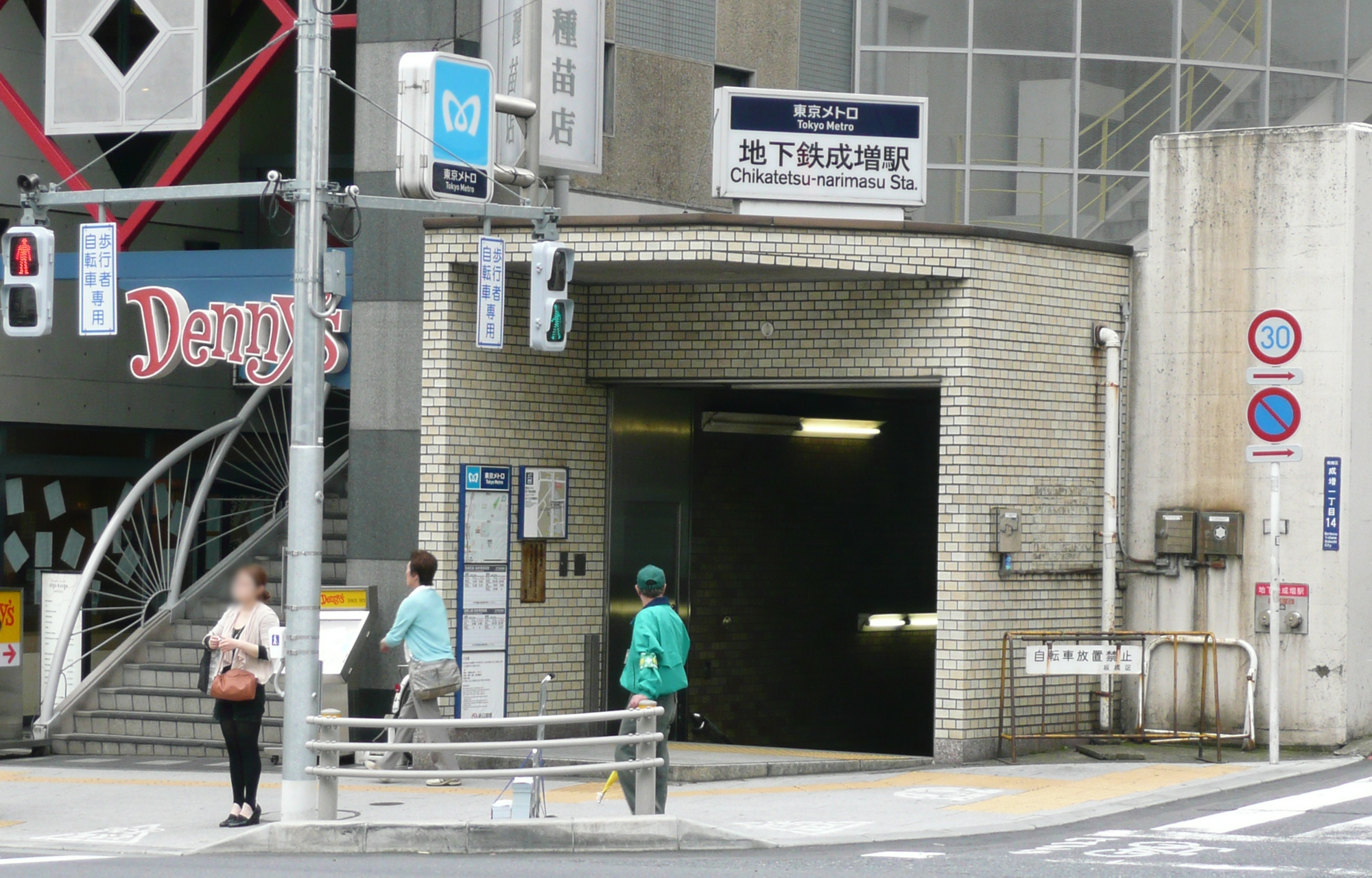 Exit No. 4 of Chikatetsu-Narimasu Station on the Tokyo Metro Yurakucho Line in Tokyo